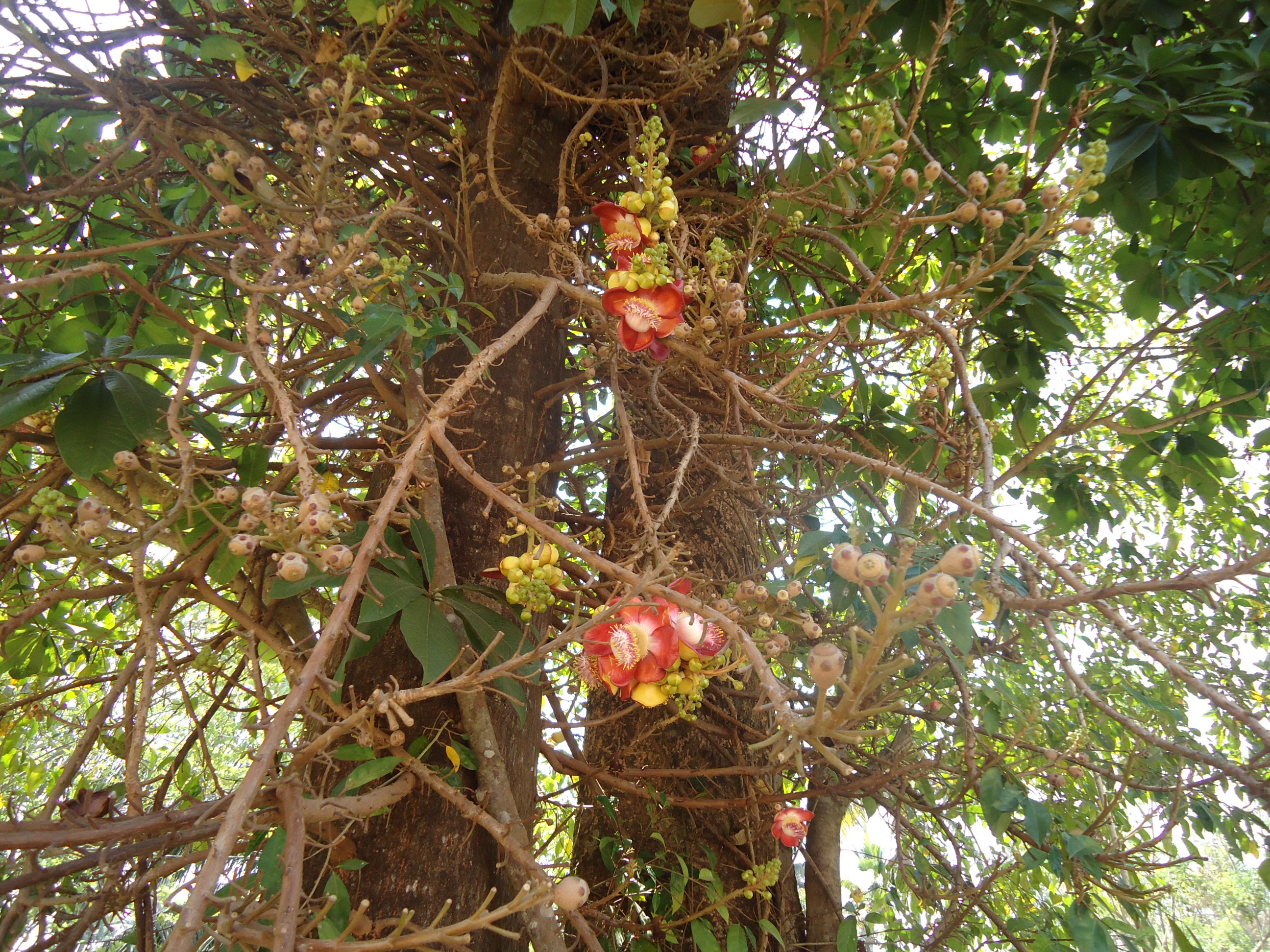 Cannon Ball Tree